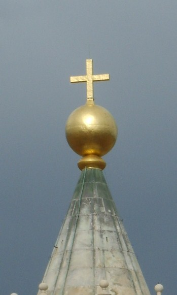 Ball and cross of Florence Cathedral